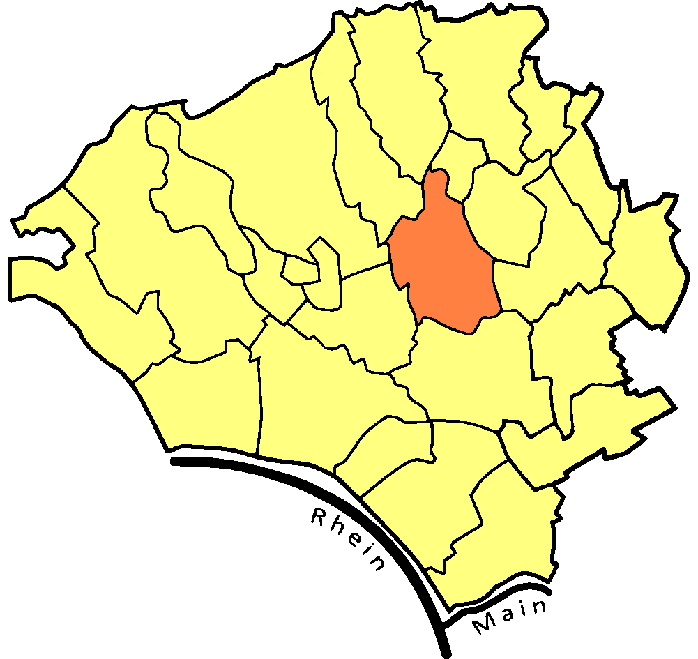 Map of Wiesbaden showing the location of Bierstadt